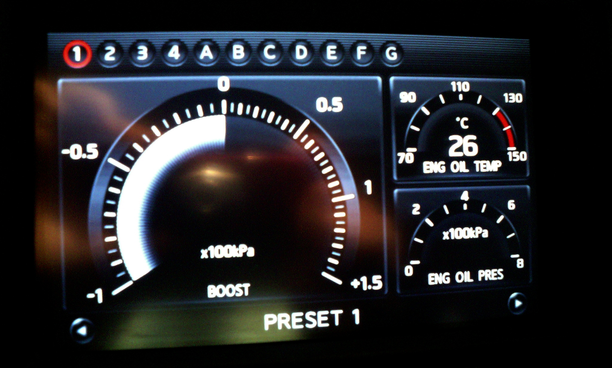 A photograph of the Multifunction Display on a Nissan GT-R